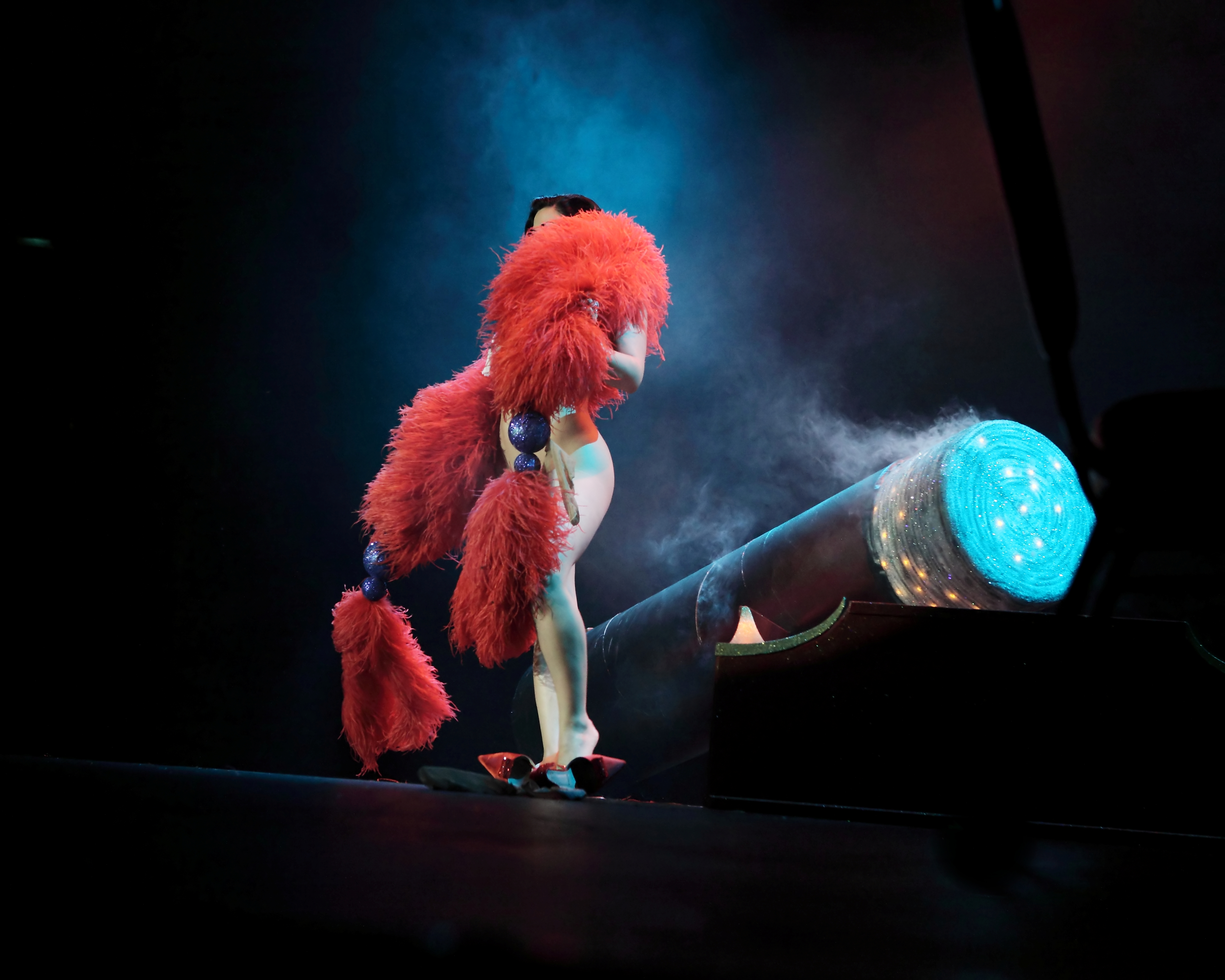 Roxi D'Lite onstage at Burlesque Hall of Fame 2010.